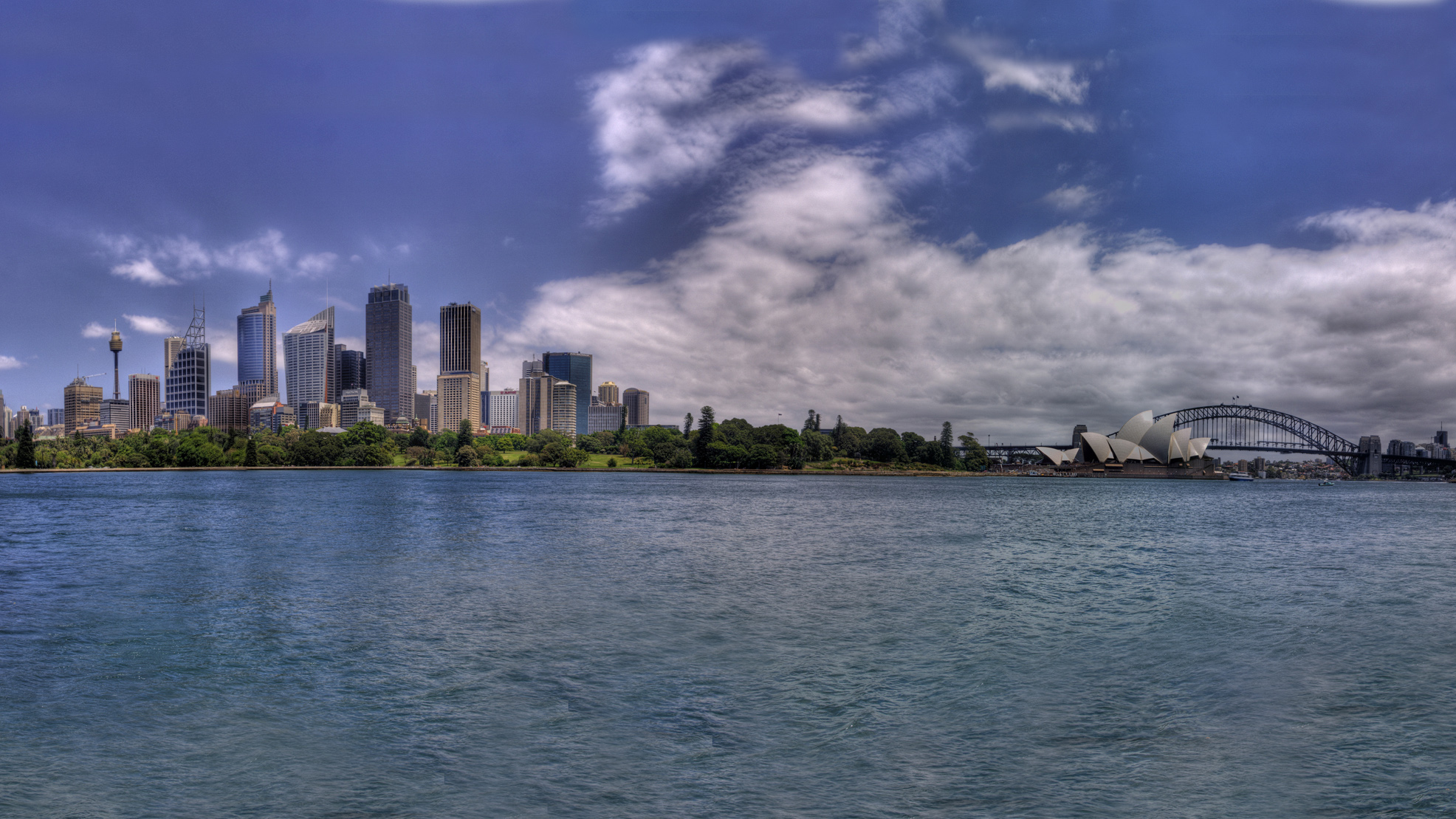 sydney skyline, royal botanical gardens, opera house, harbour bridge, across farm cove.